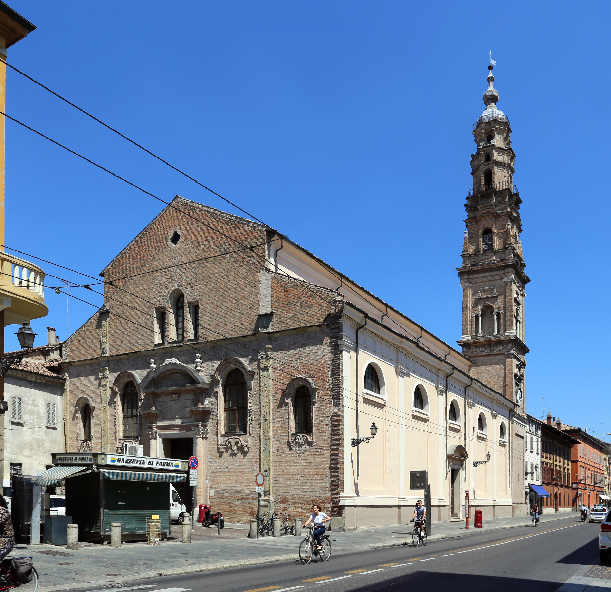 Churches_in_Parma